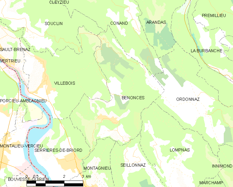 Map of French commune: Bénonces Map commune FR insee code 01037.png